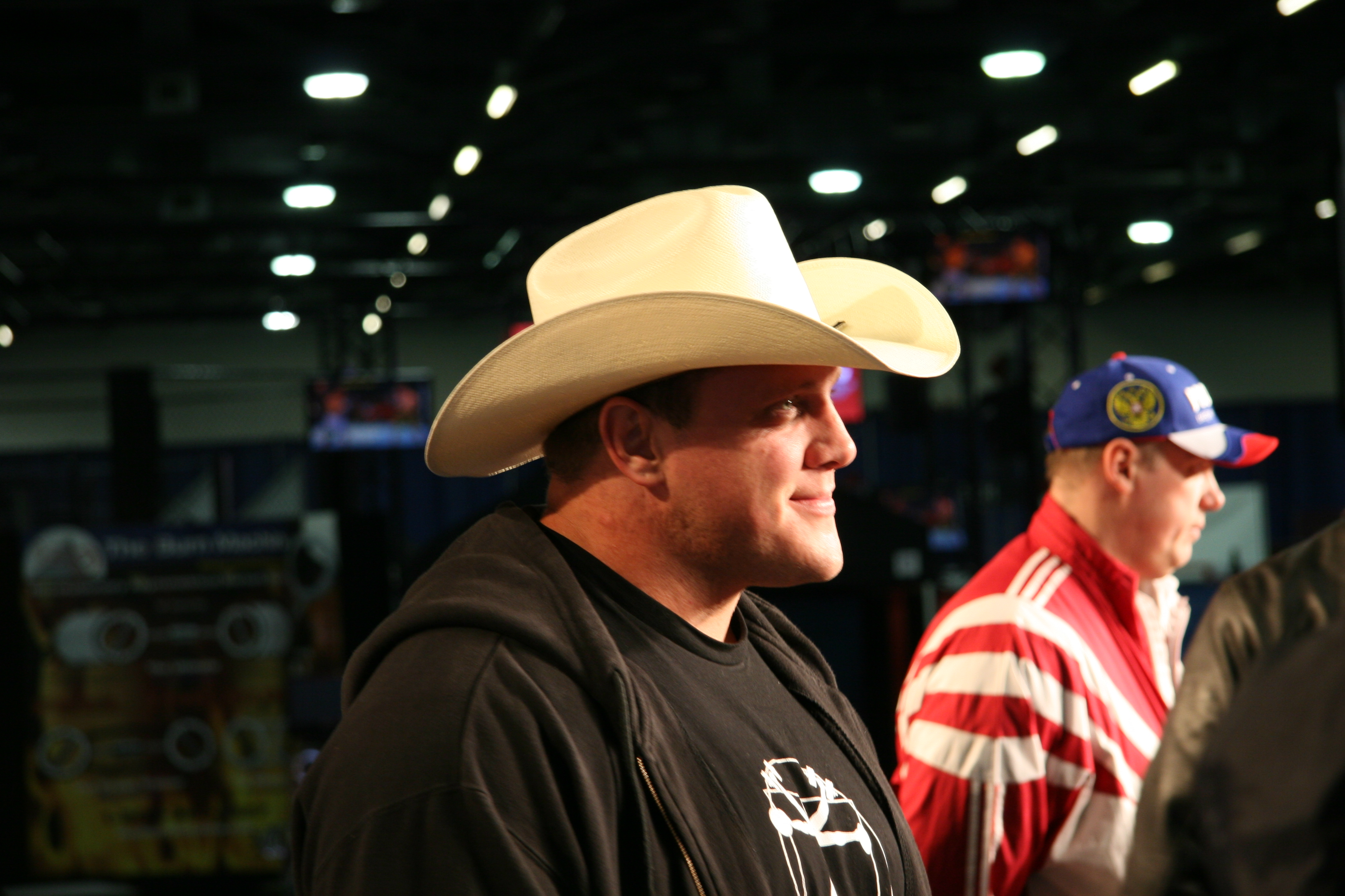 Travis Ortmayer - the Man from Texas.